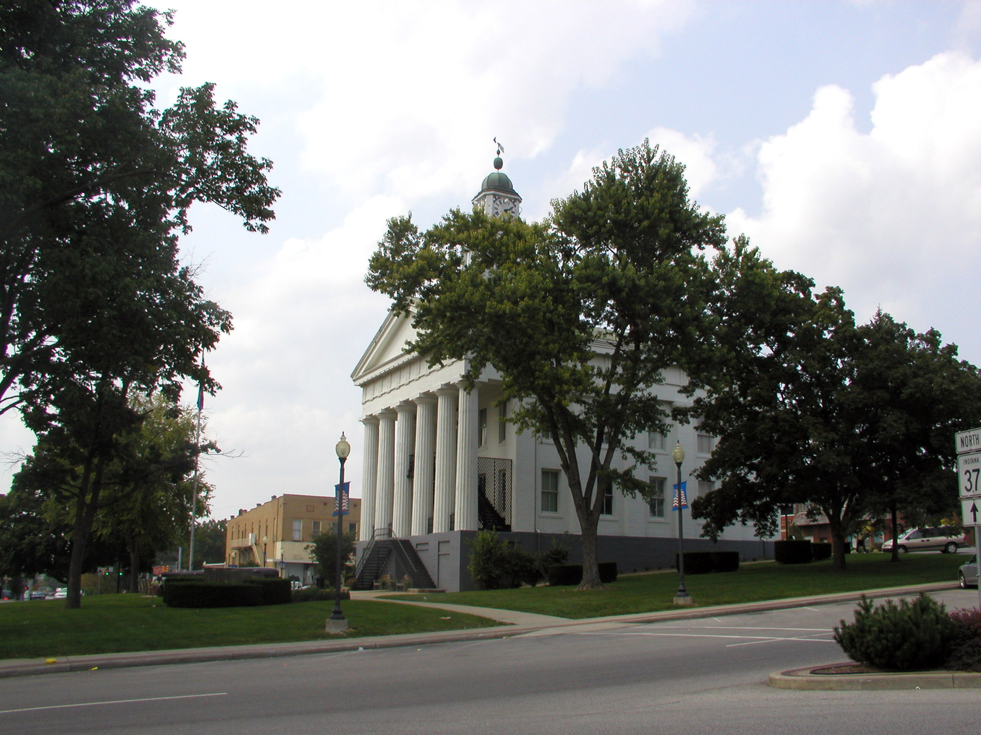 Orange County Courthose in Paoli, Indiana. Taken by User:Durin-en in September of 2006.